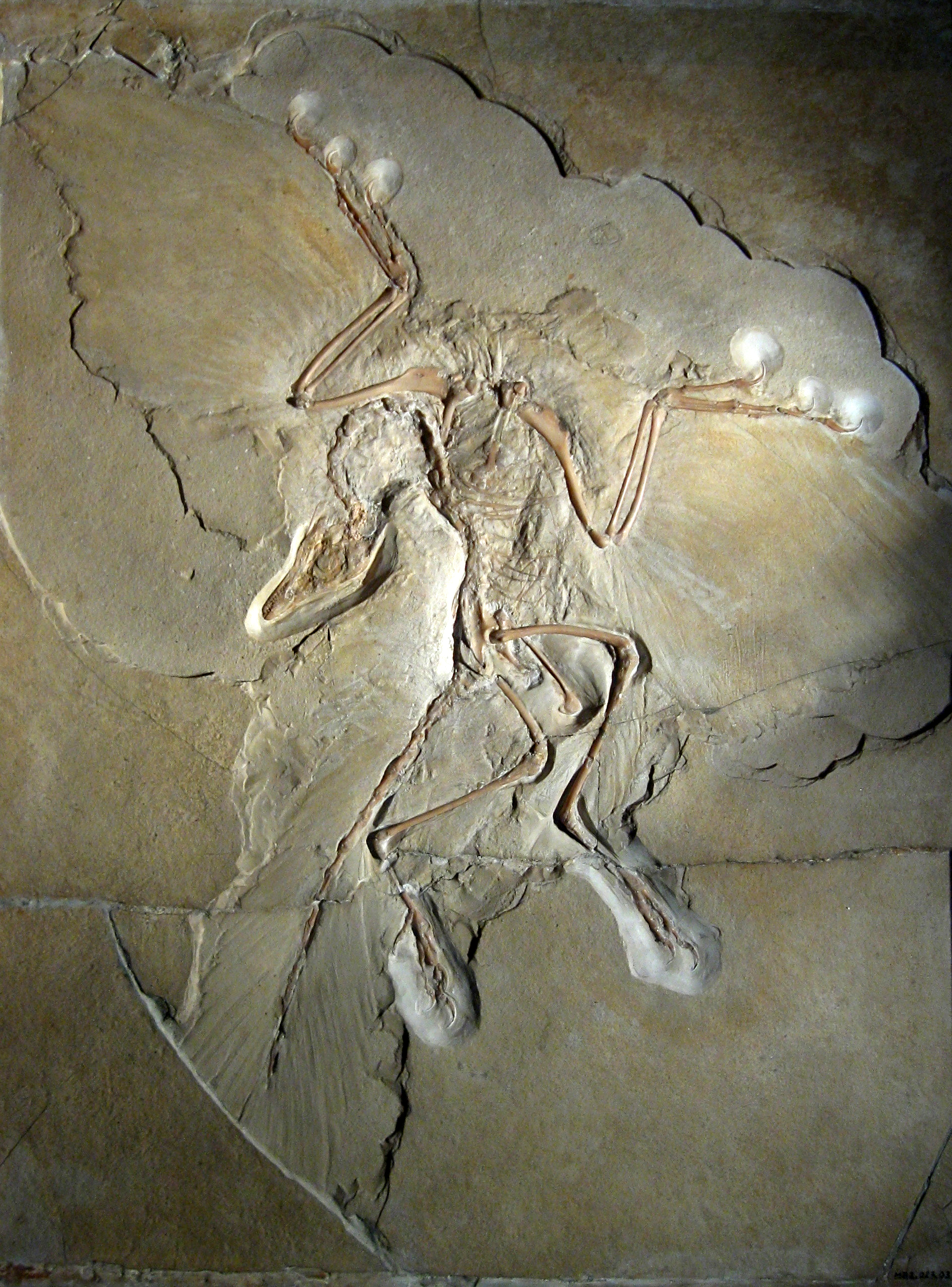 Archaeopteryx lithographica, specimen displayed at the Museum für Naturkunde in Berlin. (This image shows the original fossil - not a cast.)